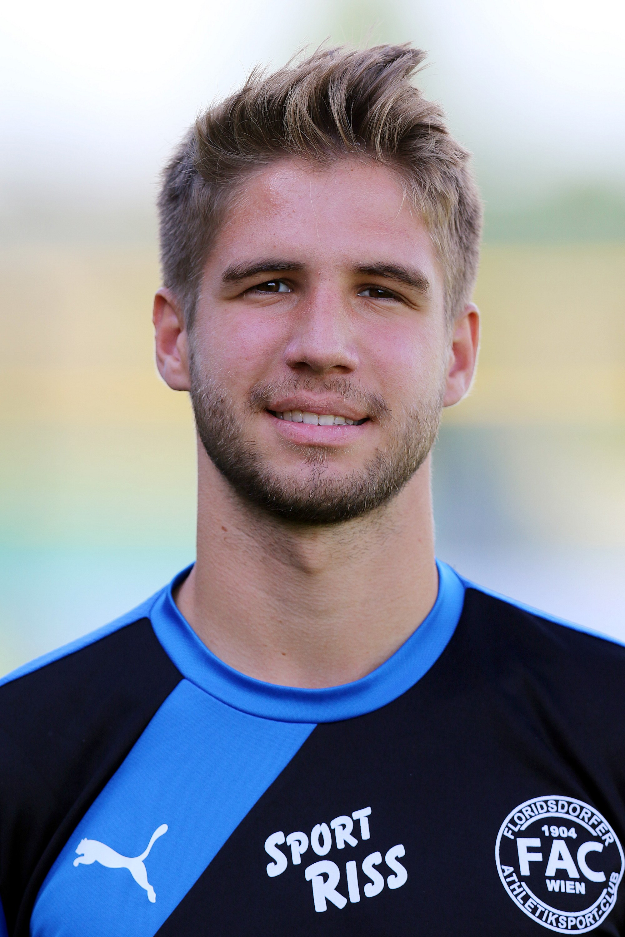 Floridsdorfer AC squad for the 2016-17 season. – The photo shows